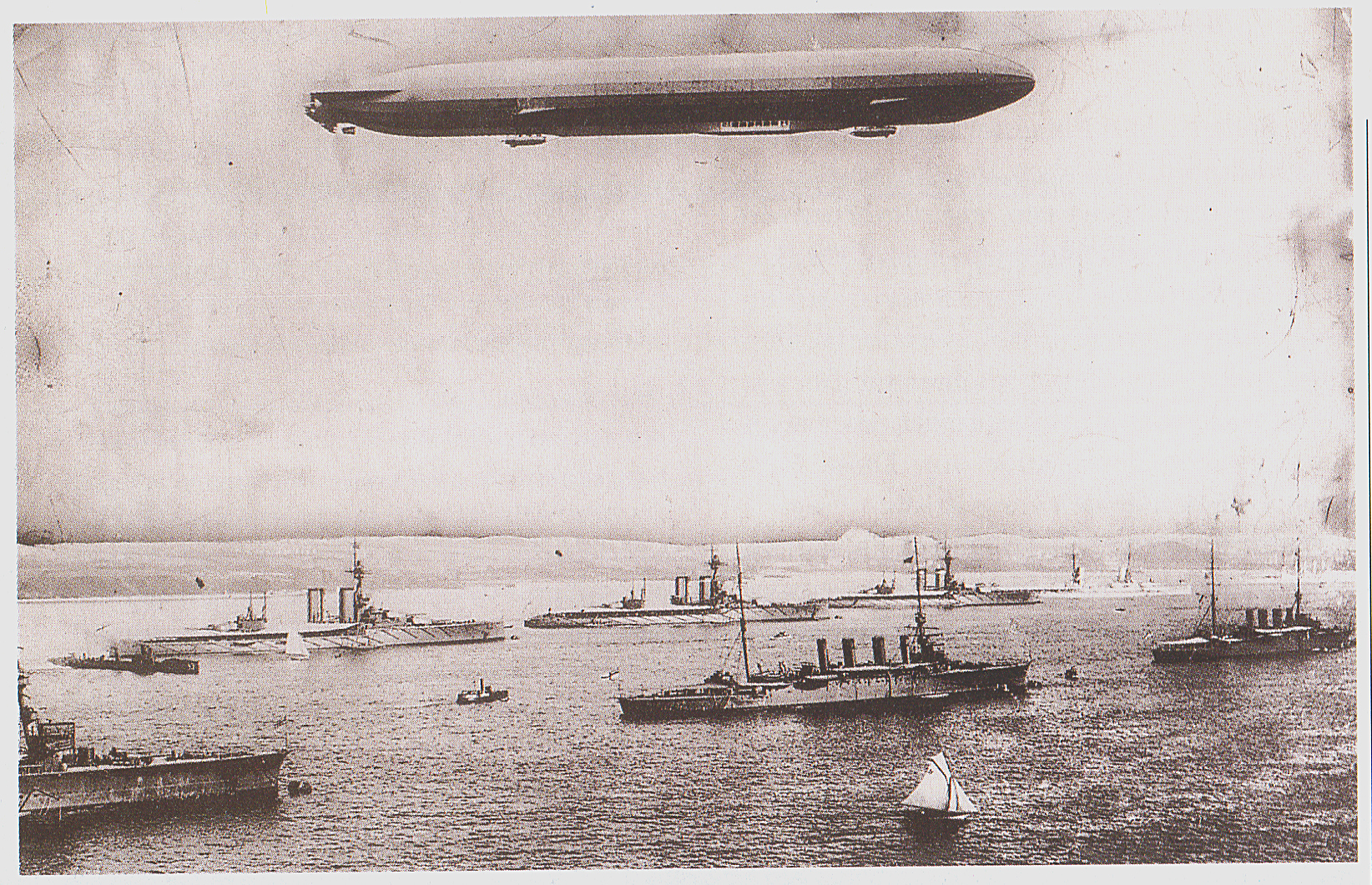 A Zeppelin over Kiel during the visit of the British fleet.